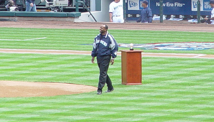 Alvin Davis throws out the first pitch on Opening Day at Safeco Field.